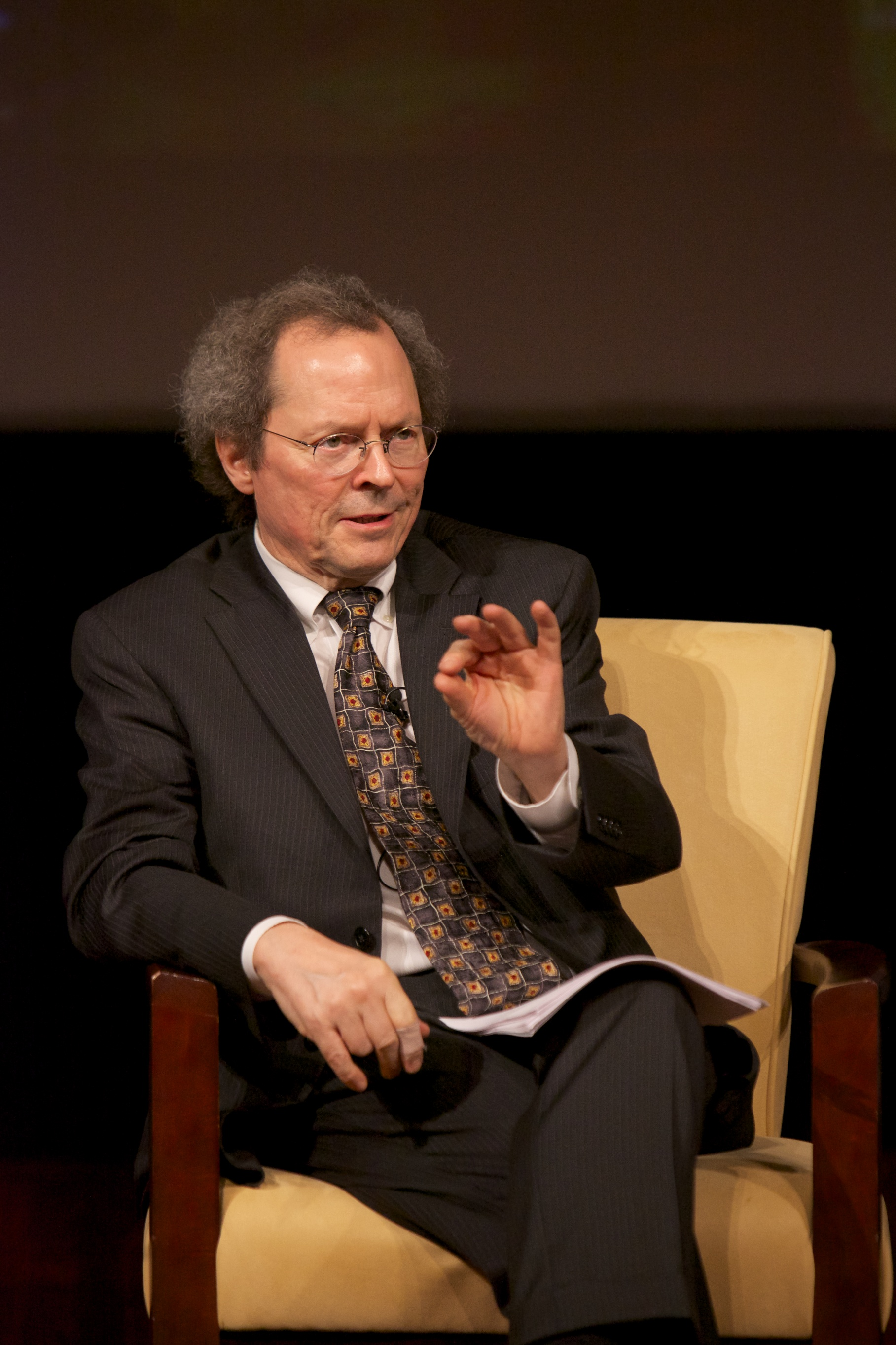 Camelot in Tune: Music in the Camelot in Tune: Music in the Kennedy White House; A musical tribute celebrating the Kennedy' legacy of musical performances in the White House; Kenneth Slowik, Artistic Director of the Smithsonian Chamber Music Society, discusses music in the Kennedy White House